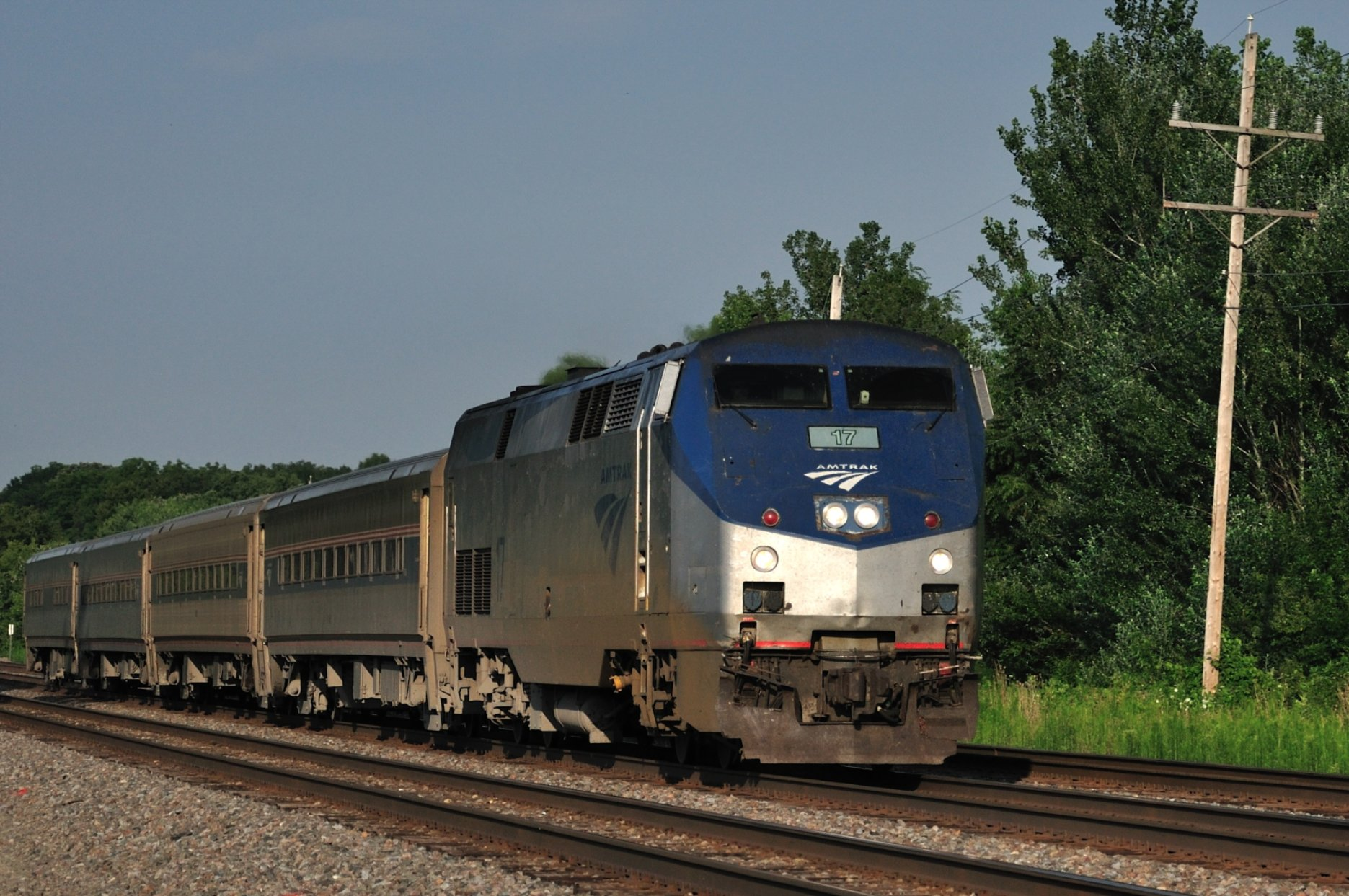 Amtrak train no. 383, the Illinois Zephyr, heads west on the express track of the BNSF Chicago subdivision (i.e. The Racetrack).